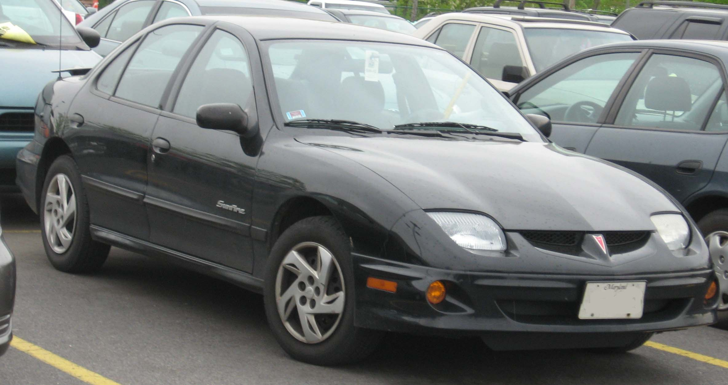 2000-2002 Pontiac Sunfire photographed in USA.